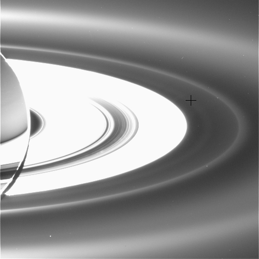 A new diffuse ring, coincident with the orbits of Saturn's moon's Janus and Epimetheus, has been revealed in ultra-high phase angle views from Cassini. Ultra-high phase angle indicates the sun is behind the target. The new ring is visible in this image (marked by a cross in figure 1) outside the overexposed main rings and interior to the G and E rings. The G ring has a sharp inner boundary; the E ring is extremely broad and arcs across the upper and lower portions of the scene. While it is not unexpected that impact events on Janus and Epimetheus might kick particles off the moons' surfaces and inject them into Saturn orbit, it is, surprising that a well-defined structure exists at this location. The view looks down from about 15 degrees above the un-illuminated side of the rings. Some faint spokes can also be spotted in the main rings, made visible by sunlight diffusing through the B ring. The image was taken in visible light with the Cassini spacecraft wide-angle camera on Sept. 15, 2006, at a distance of approximately 2.2 million kilometers (1.3 million miles) from Saturn and at a sun-Saturn-spacecraft angle of almost 179 degrees. Image scale is approximately 250 kilometers (155 miles) per pixel. The Cassini-Huygens mission is a cooperative project of NASA, the European Space Agency and the Italian Space Agency. The Jet Propulsion Laboratory, a division of the California Institute of Technology in Pasadena, manages the mission for NASA's Science Mission Directorate, Washington, D.C. The Cassini orbiter and its two onboard cameras were designed, developed and assembled at JPL. The imaging operations center is based at the Space Science Institute in Boulder, Colo.